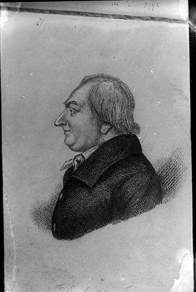 1 negative : glass, dry plate, b&w ; 11 x 8.5 cm.